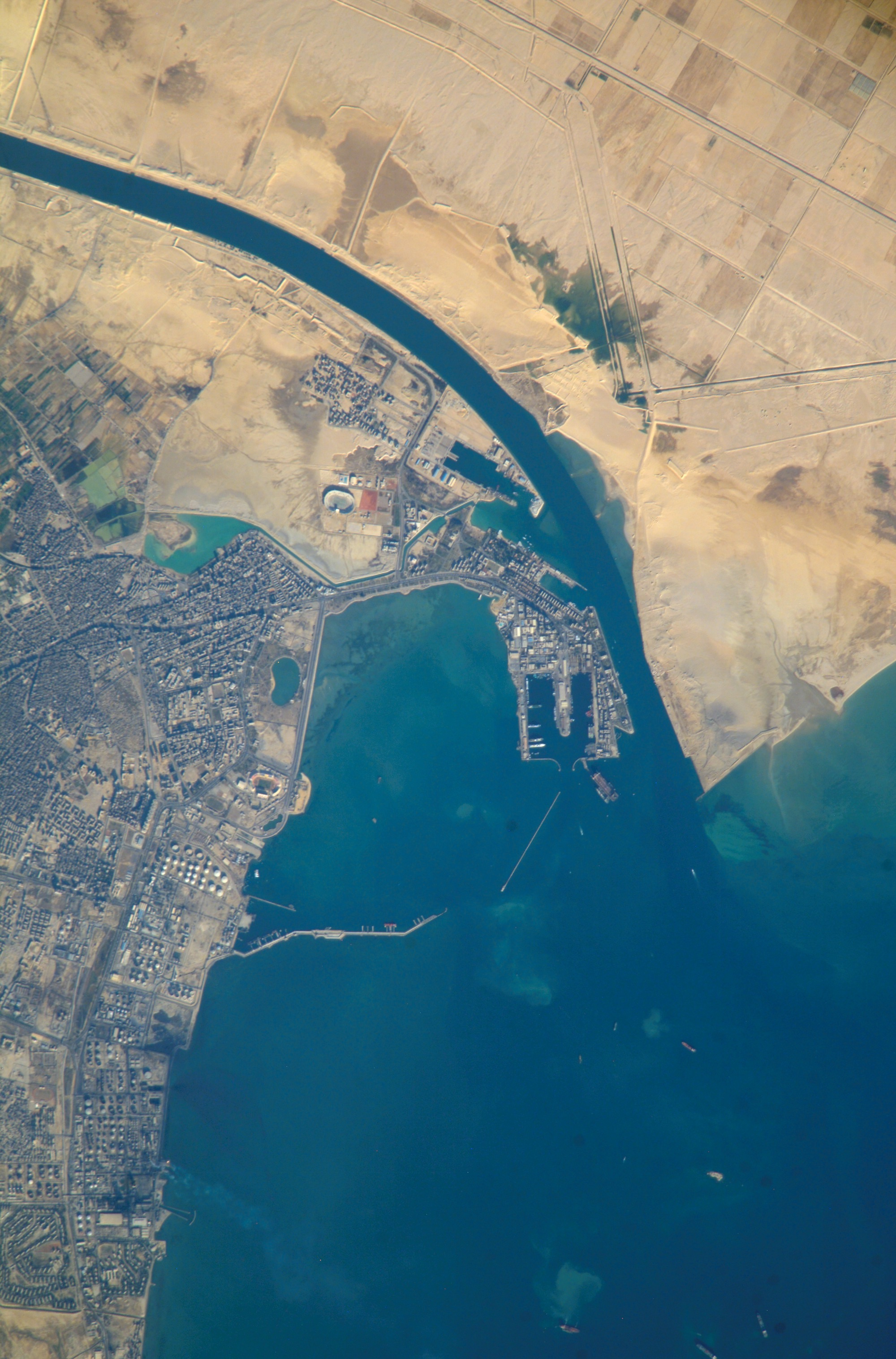 Port of Suez, Egypt is featured in this image photographed by an Expedition 16 crewmember on the International Space Station. The Port of Suez is located in Egypt along the northern coastline of the Gulf of Suez. The port and city are the southern terminus of the Suez Canal that transits through Egypt and debouches into the Mediterranean Sea near Port Said.